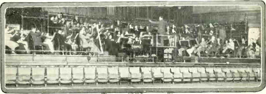 SIR HENRY WOOD'S QUEEN'S HALL ORCHESTRA Rehearsing for the first Promenade Concert of the 1927 Season, broadcast on Saturday, August 13